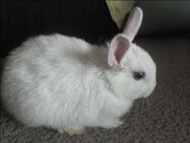 A 6-week old baby Vienna white(blue eyed white) Netherland Dwarf.